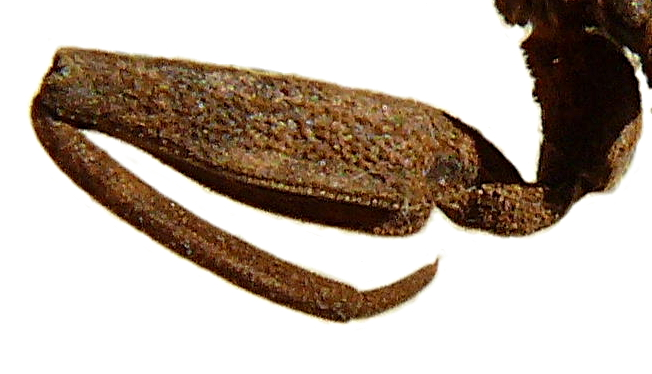 Front leg of Nepa cinerea